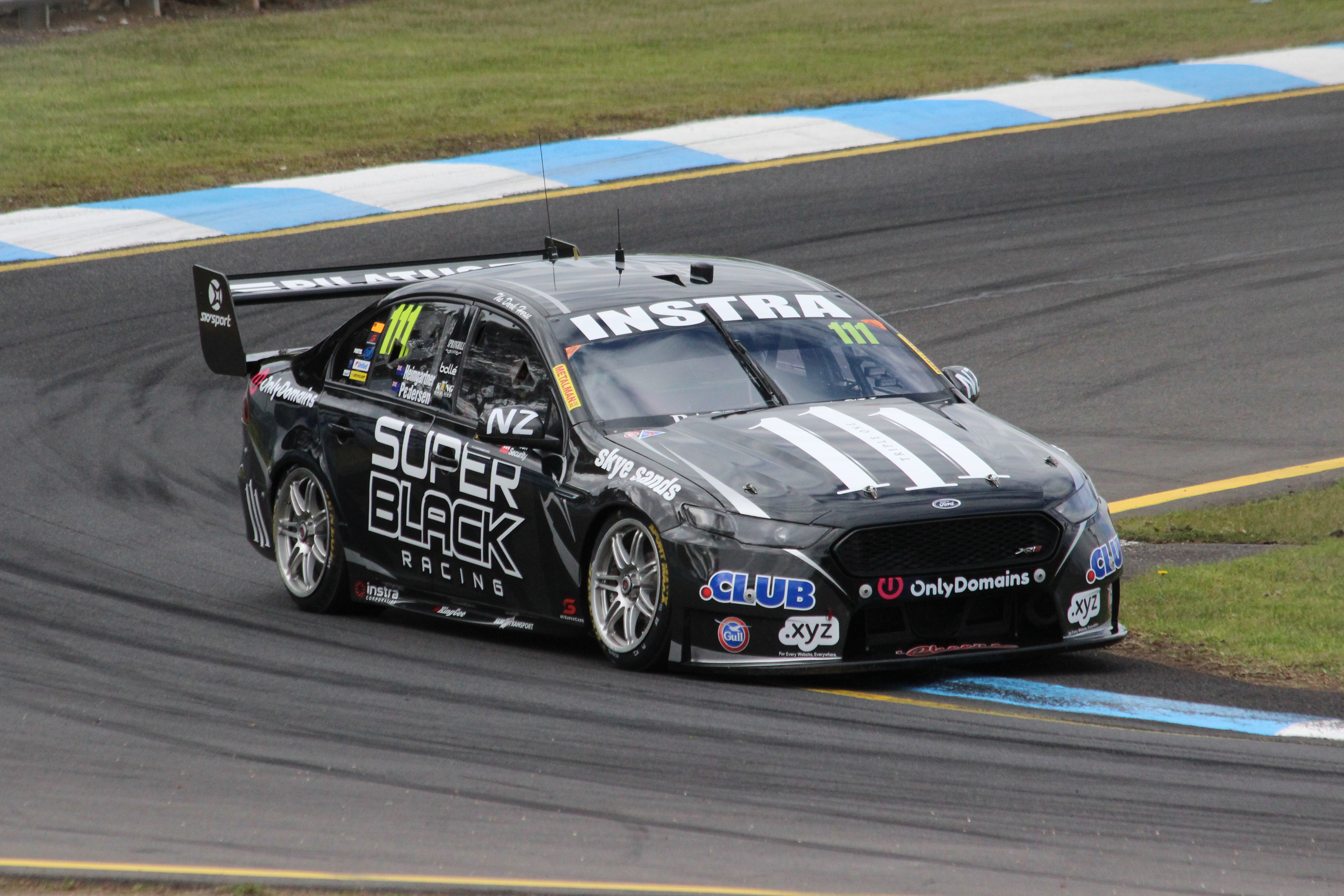 The Super Black Racing Ford FG X Falcon of Andre Heimgartner and Ant Pedersen at the 2015 Wilson Security Sandown 500.